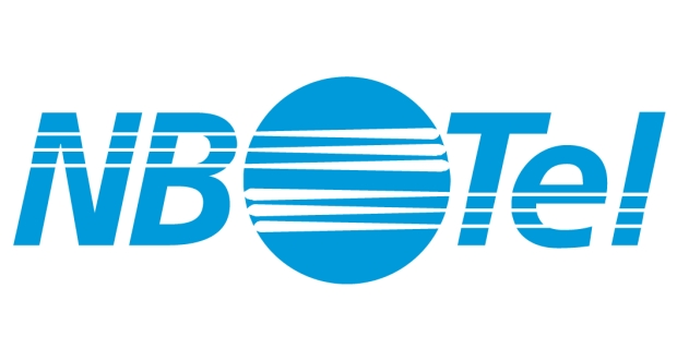 Logo of the former NBTel Company until it became part of Aliant (Now Bell Aliant) in 1999. It's basically a stylized circle with stylized text. Both the circle and text are light blue.